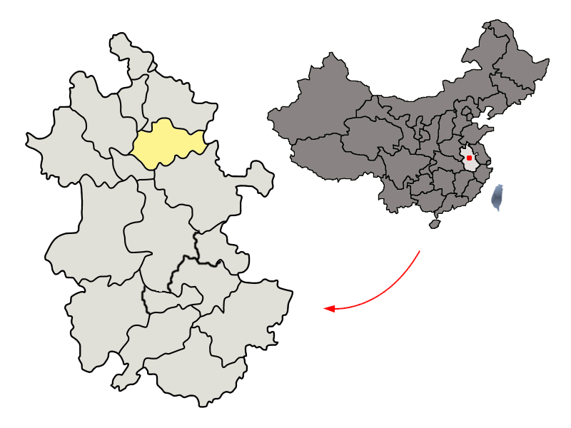 Location of Bengbu Prefecture (yellow) within Anhui Province of China Map drawn in december 2007 using various sources, mainly : Anhui Province administrative regions GIS data: 1:1M, County level, 1990 Anhui Counties map from